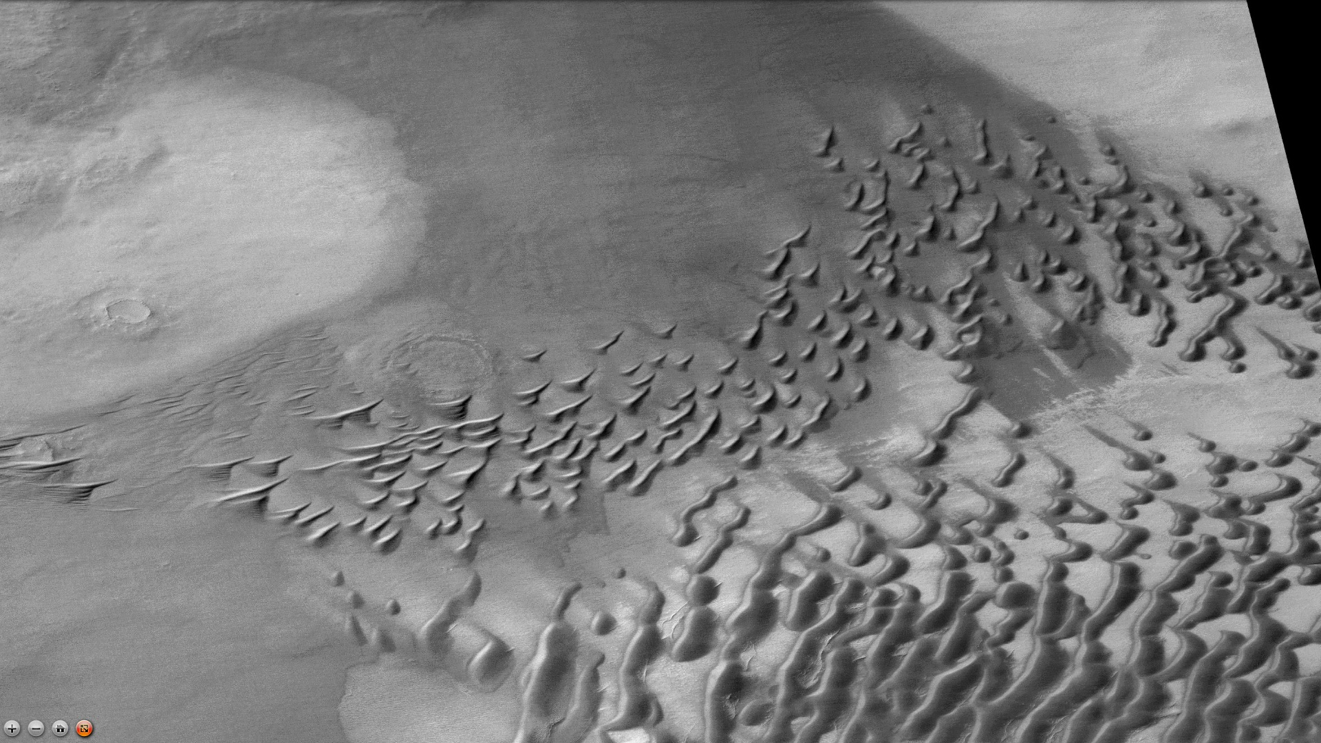 Dunes in Lamont Crater, as seen by CTX